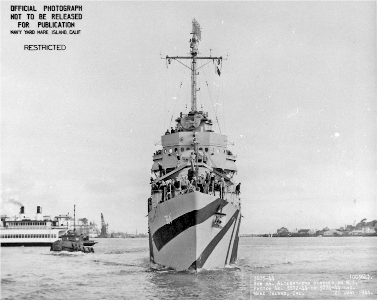 Bow of USS Mahan